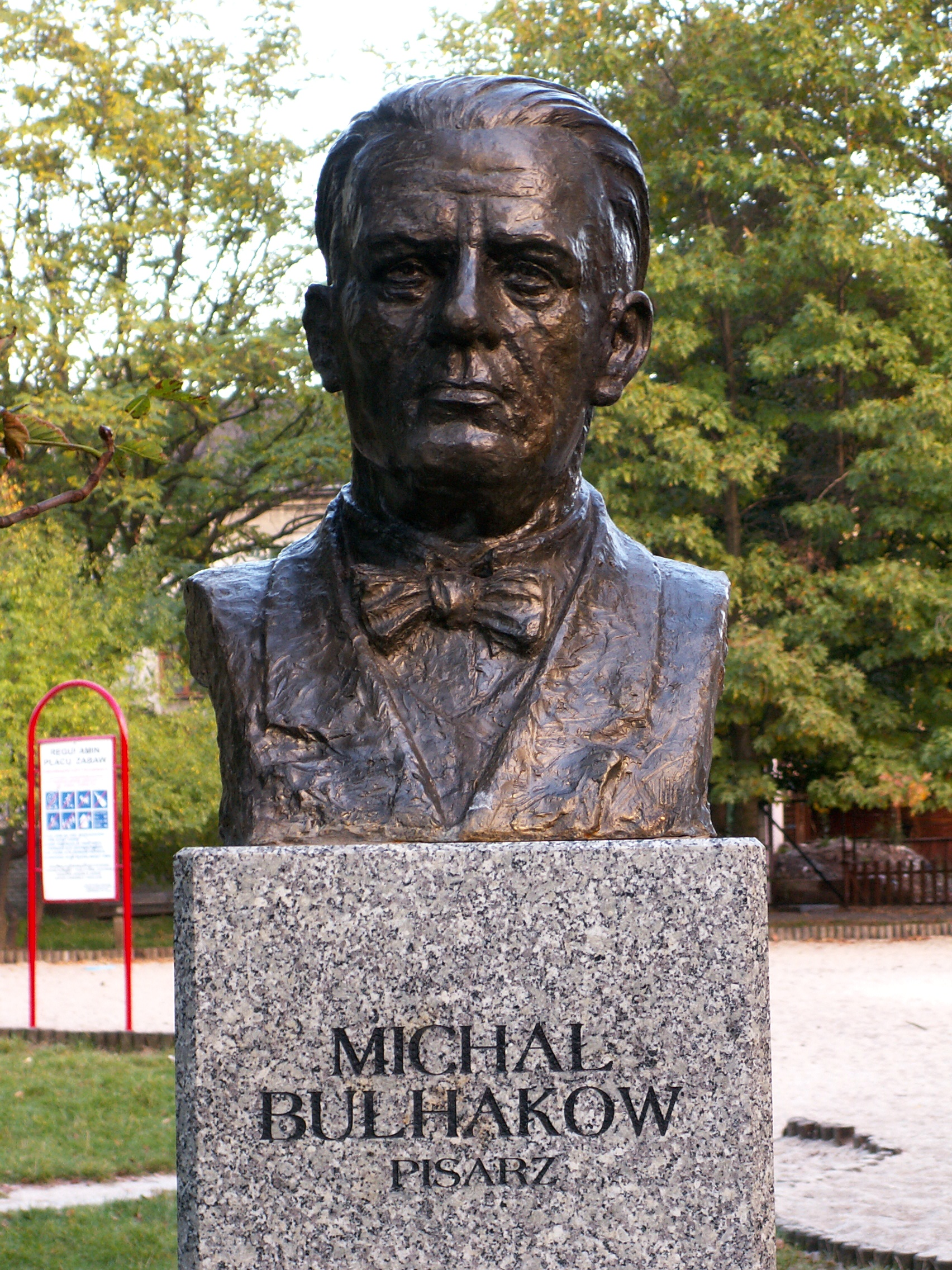 Bust of Michaił Bułhakow in Celebrity Alley in Kielce (Poland)